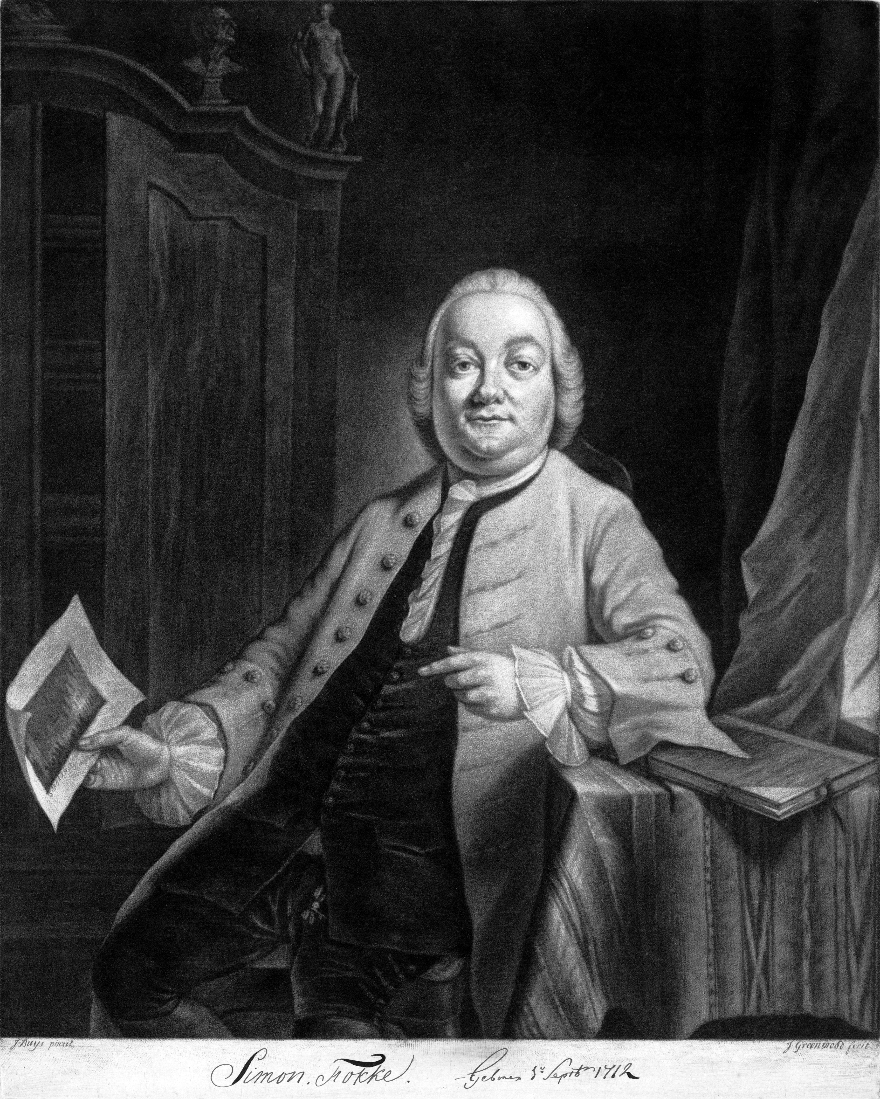 Simon Fokke (1712-1784) mezzotint 18th century